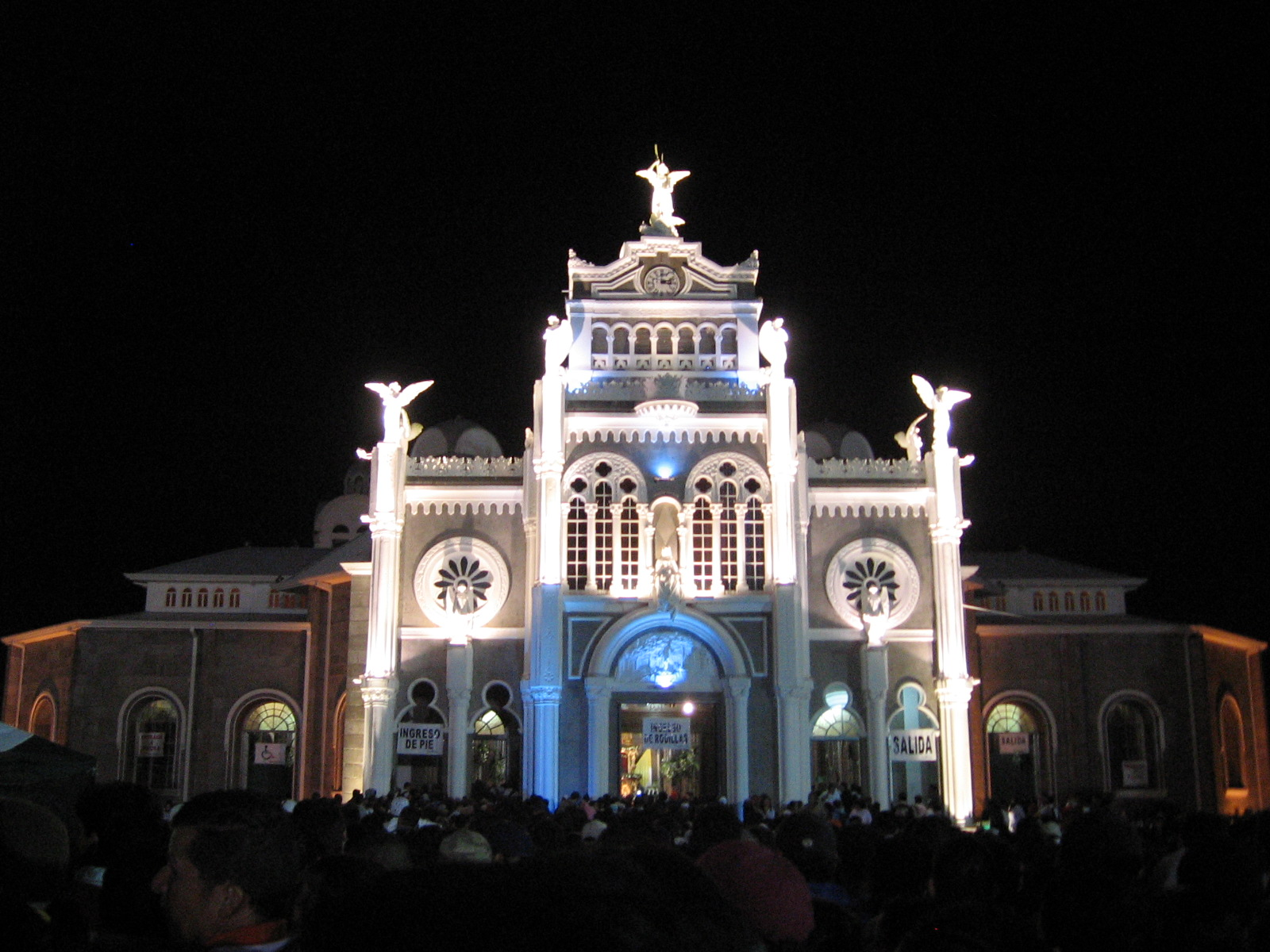 Church of the Virgin of the Angels during 2007 pilgrimage. Cartago, Costa Rica.